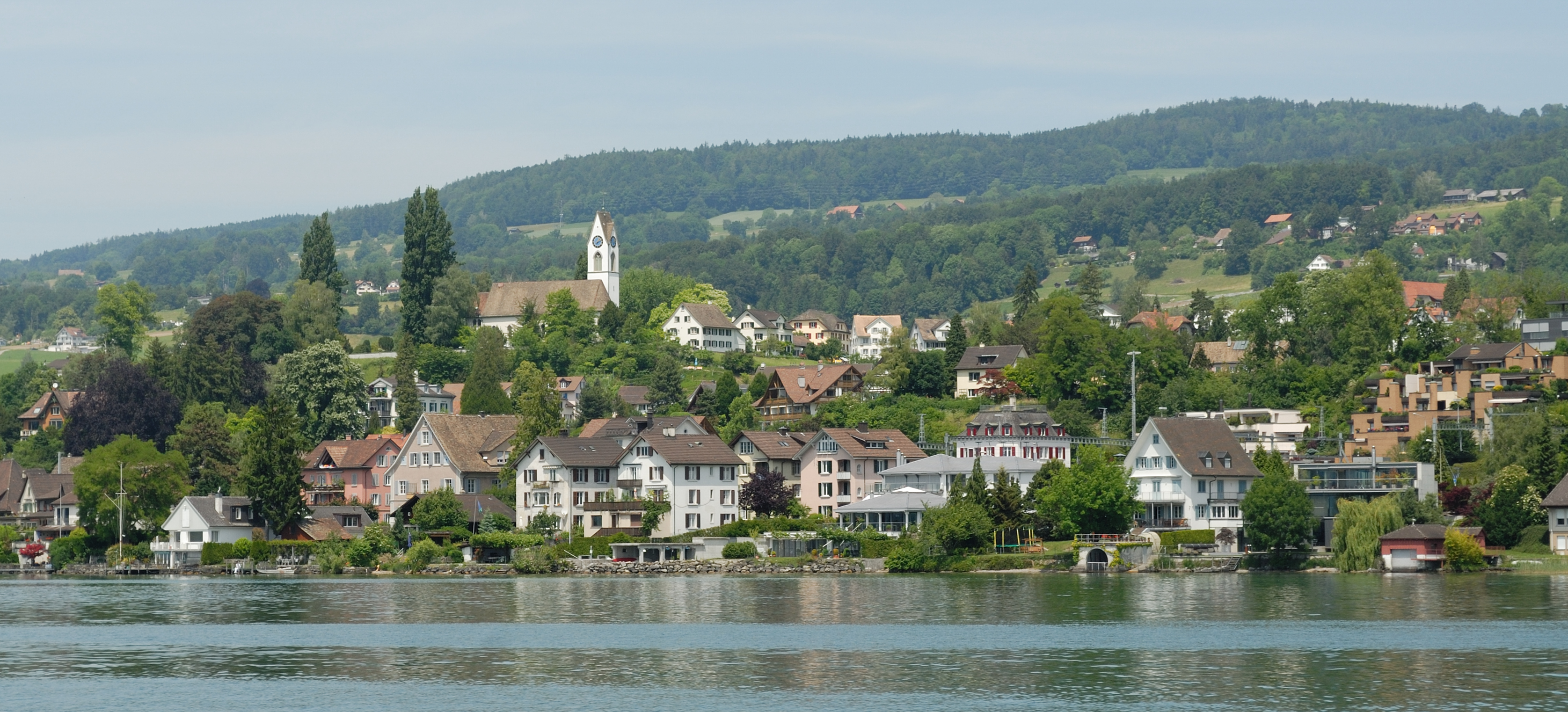 View of Uetikon am See from Lake Zürich.